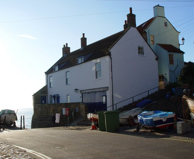 Old Coastguard Station Visitors Centre The stairway beside the building takes the traveller to the southward continuation of the Cleveland Way.